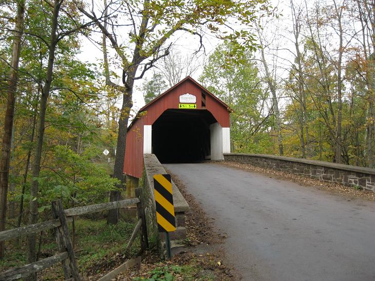 Photo of Frankenfield covered bridge in Point Pleasant, Bucks County, Pennsylvania from the south end of the span.